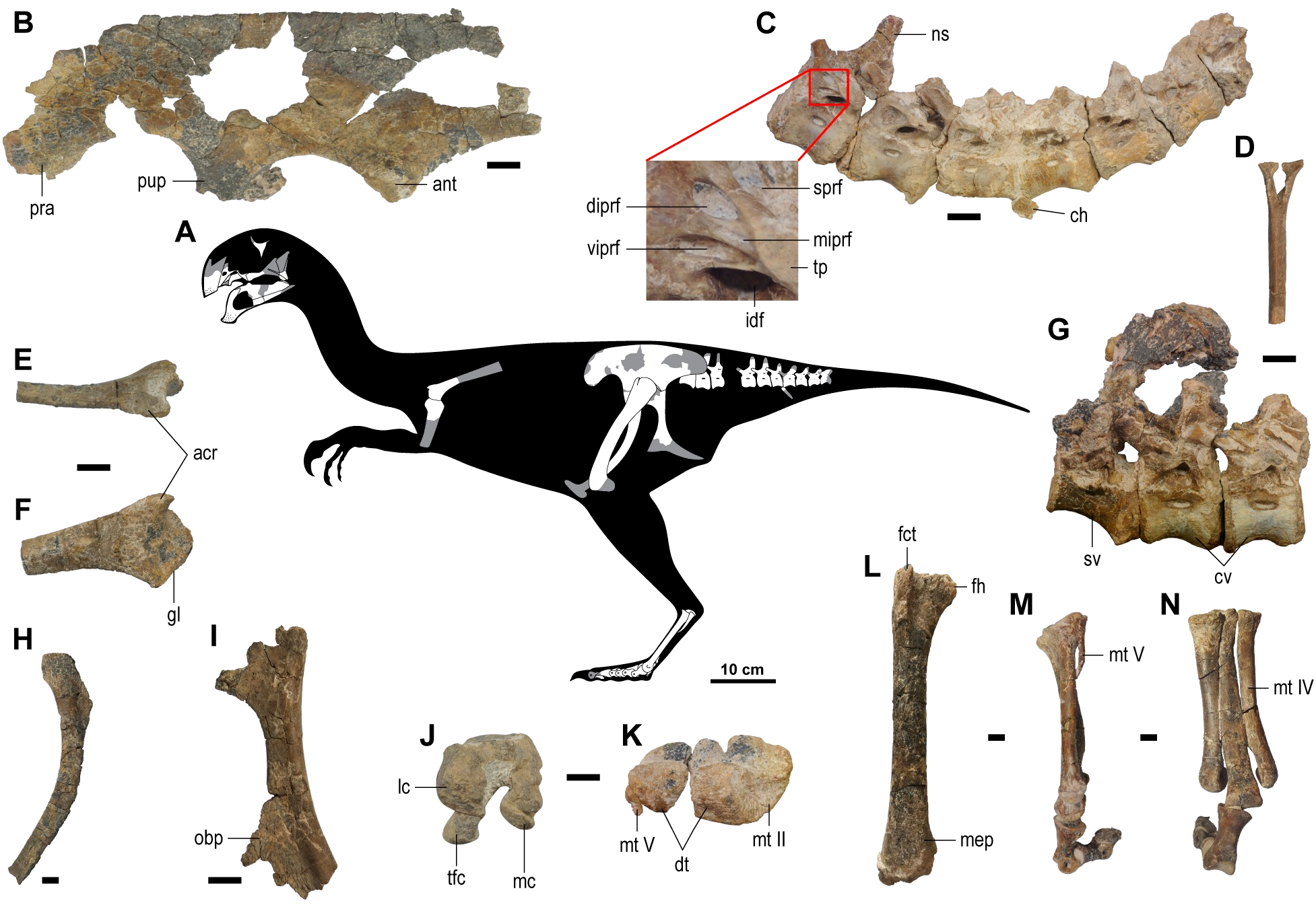 (A) Skeletal reconstruction in left lateral view (missing and damaged portions of the bones in gray). (B) Left ilium in lateral view. (C) Proximal caudal vertebrae in left lateral view with close-up of the infraprezygapophyses. (D) Chevron in cranial view. (E-F) Right scapula in dorsal (E) and lateral (F) views. (G) Last sacral and the two proximalmost caudals in left lateral view. (H) Right pubis in medial view. (I) Right ischium in lateral view. (J) Right femur in distal view. (K) Left metatarsus and distal tarsals in proximal view. (L) Right femur in cranial view. (M-N) Left metatarsus in lateral (M) and dorsal (N) views. Abbreviations: acr, acromion process; ant, antitrochanter; ch, chevron; cv, caudal vertebra(e); diprf, dorsal infraprezygapophyseal fossa; dt, distal tarsal(s); fct, cranial trochanter of femur; fh, femoral head; gl, glenoid fossa; idf, infradiapophyseal fossa; lc, lateral condyle; mc, medial condyle; mep, medial epicondyle; miprf, middle infraprezygapophyseal fossa; mt II, metatarsal II; mt IV, metatarsal IV; mt V, metatarsal V; ns, neural spine; obp, obturator process; pra, preacetabular process; pup, pubic peduncle; sprf, supraprezygapophyseal fossa; sv, sacral vertebra; tfc, tibiofibular crest; tp, transverse process; viprf, ventral infraprezygapophyseal fossa. Scale bars equal 10 cm in (A); 1 cm in (B-N).